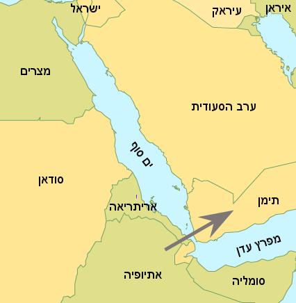 Crossing of red sea